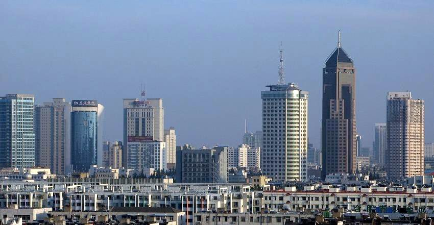 合肥摩天